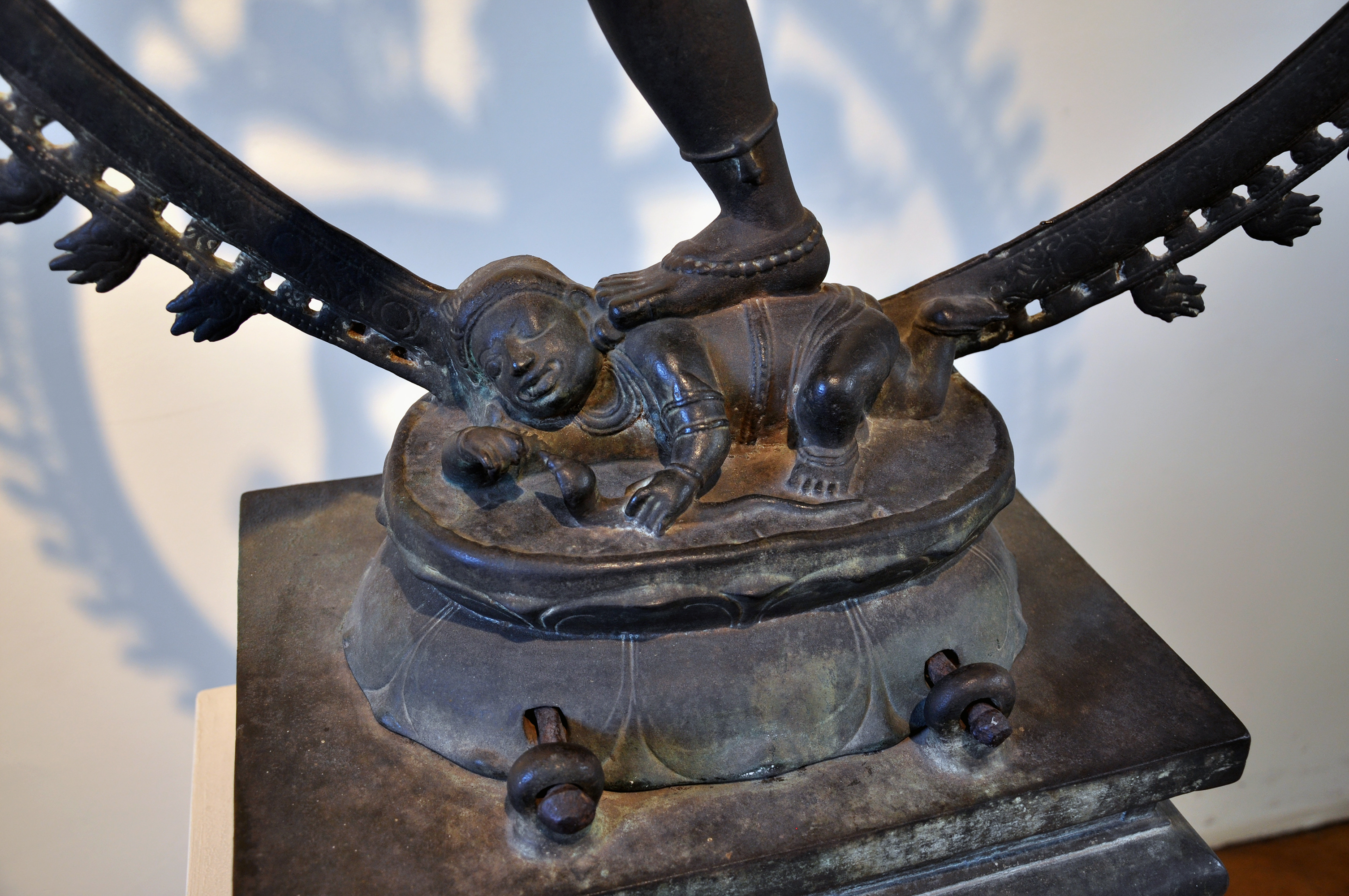 Shiva Nataraja, Chola style, from Tanjore, South India, 13th century, bronze. Royal Art and History Museums (MRAH), Jubilee Park, Brussels. Detail: Apasmara, the demon of ignorance, under Shiva's right foot.